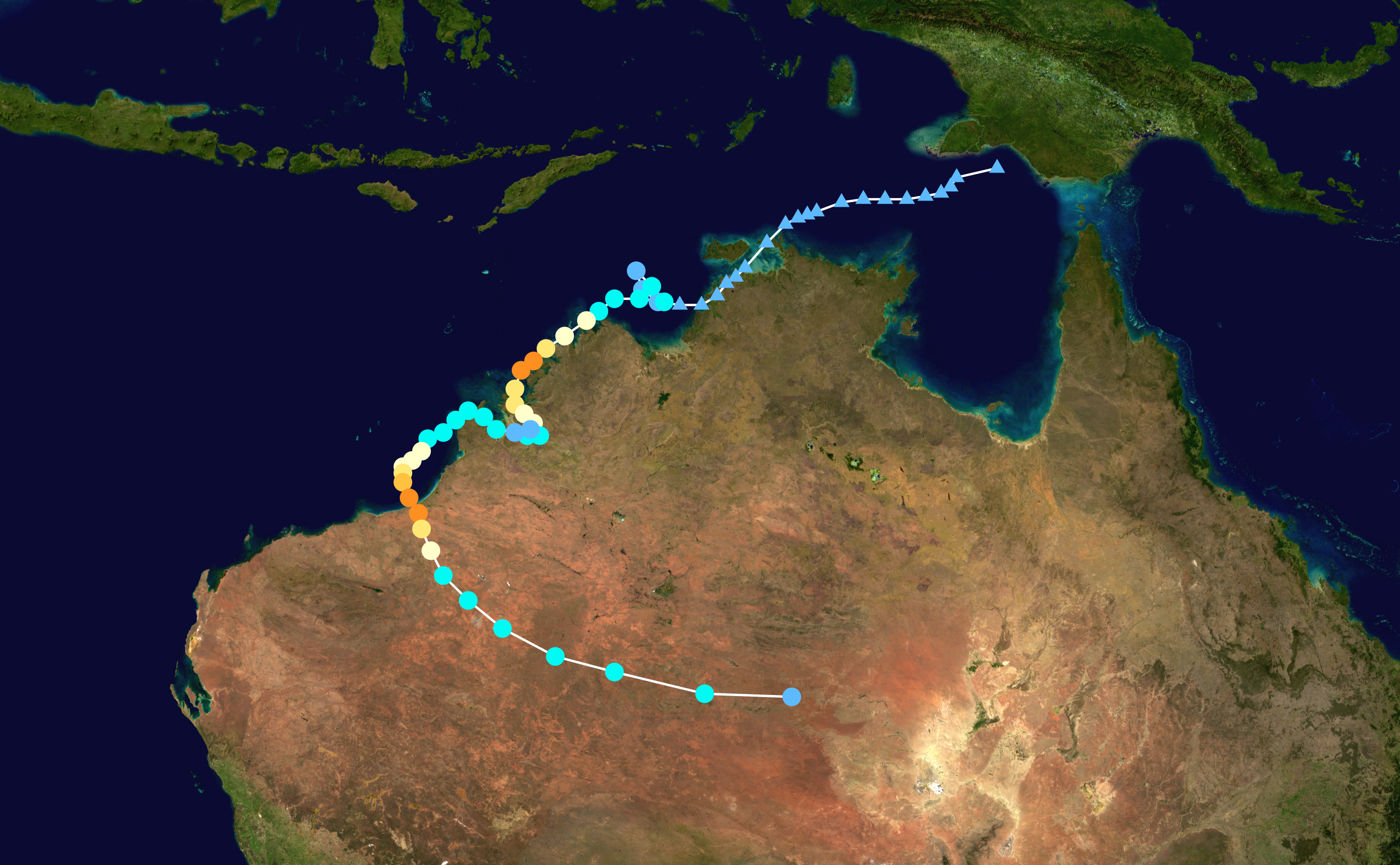 Track map of Severe Tropical Cyclone Laurence of the 2009-10 Australian region cyclone season. The points show the location of the storm at 6-hour intervals. The colour represents the storm's maximum sustained wind speeds as classified in the Saffir–Simpson scale (see below), and the shape of the data points represent the nature of the storm, according to the legend below. Saffir–Simpson scale Tropical depression≤38 mph≤62 km/h Category 3111–129 mph178–208 km/h Tropical storm39–73 mph63–118 km/h Category 4130–156 mph209–251 km/h Category 174–95 mph119–153 km/h Category 5≥157 mph≥252 km/h Category 296–110 mph154–177 km/h Unknown Storm type Tropical cyclone Subtropical cyclone Extratropical cyclone / Remnant low / Tropical disturbance / Monsoon depression